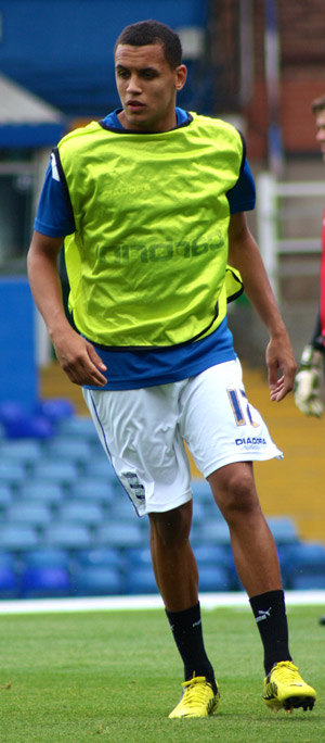 Photo of Ravel Morrison against Royal Antwerp